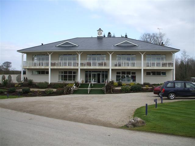 Castle Hume Golf Club Castle Hume Golf Centre is situated within the grounds of old Ely estate on the edges of Castle Hume, Lough Erne.